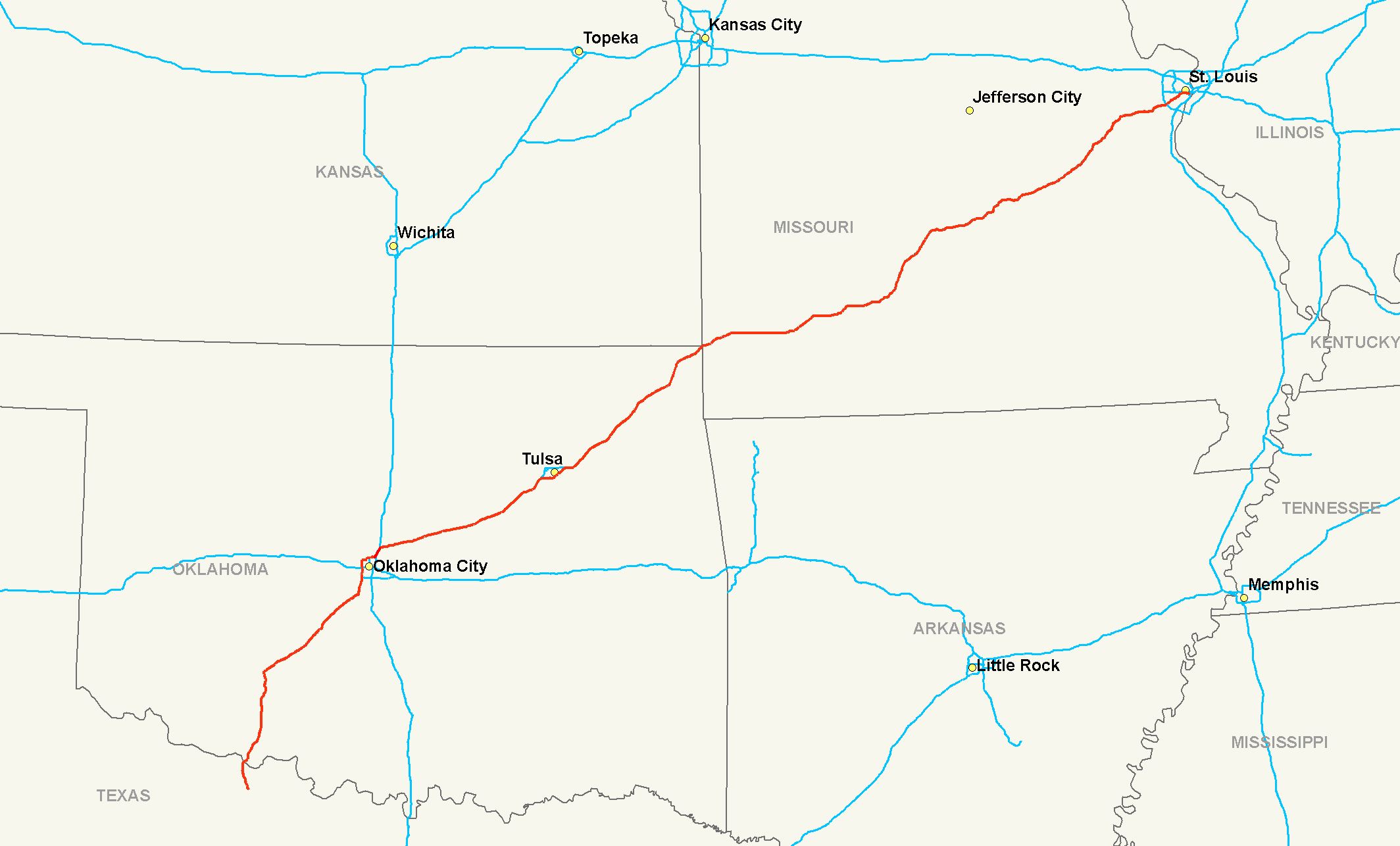 Map of Interstate 44